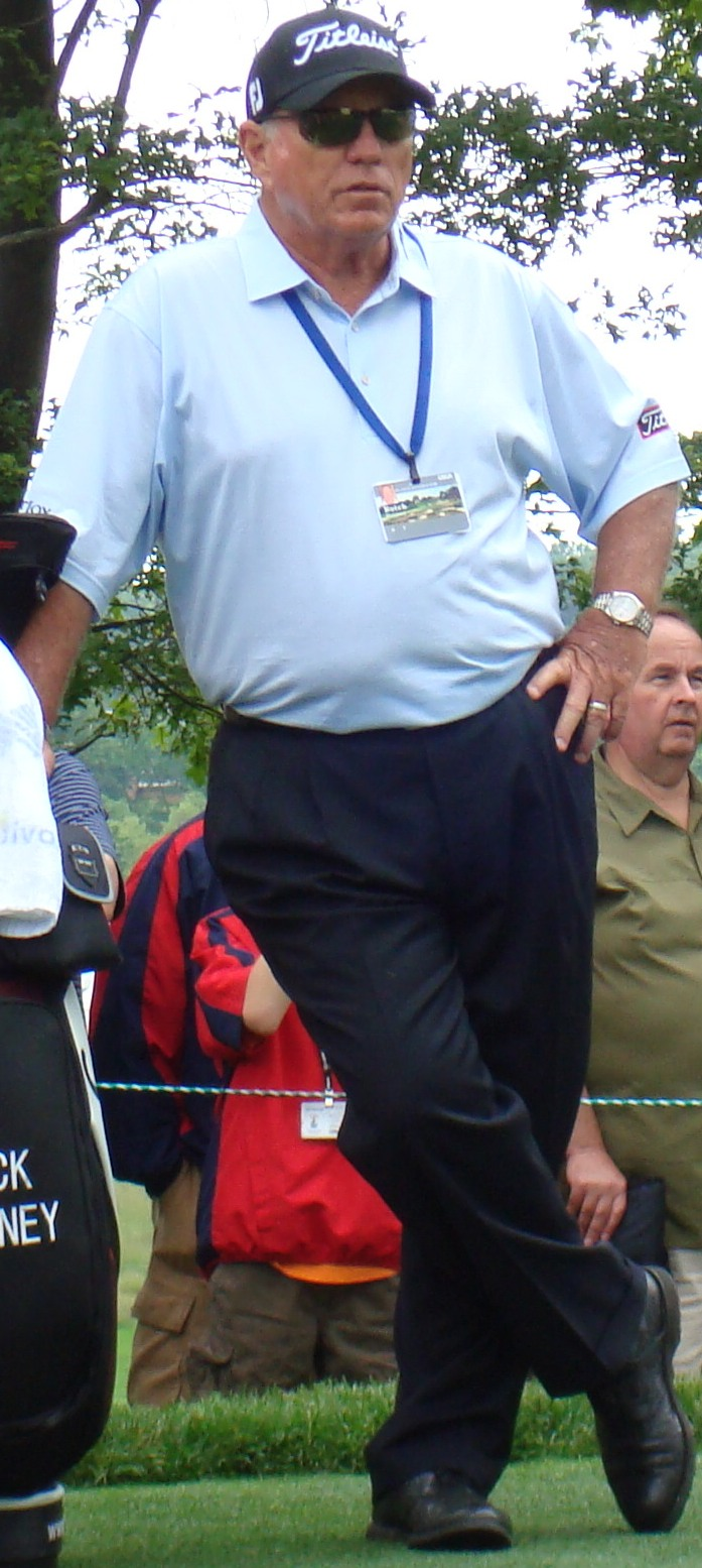 Butch Harmon during the Tuesday practice rounds of the 2009 US Open